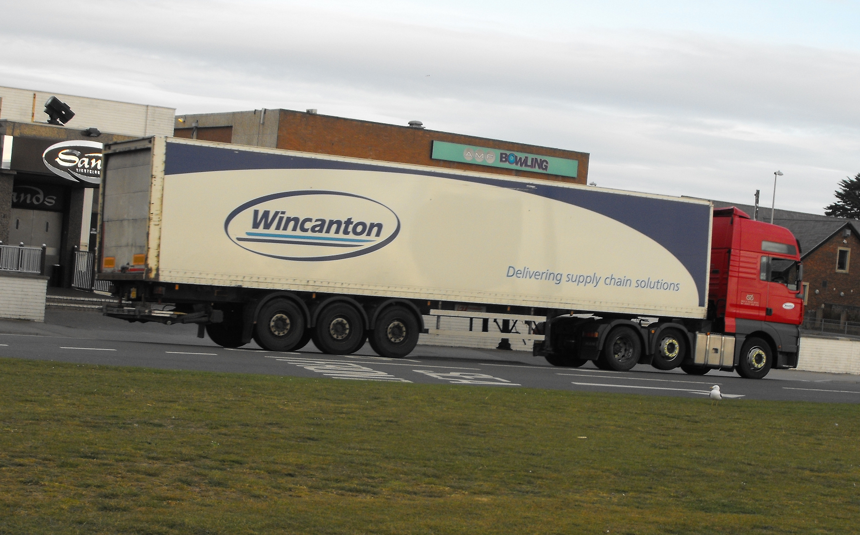 Wincanton lorry in Weston-super-duper-Mare :)